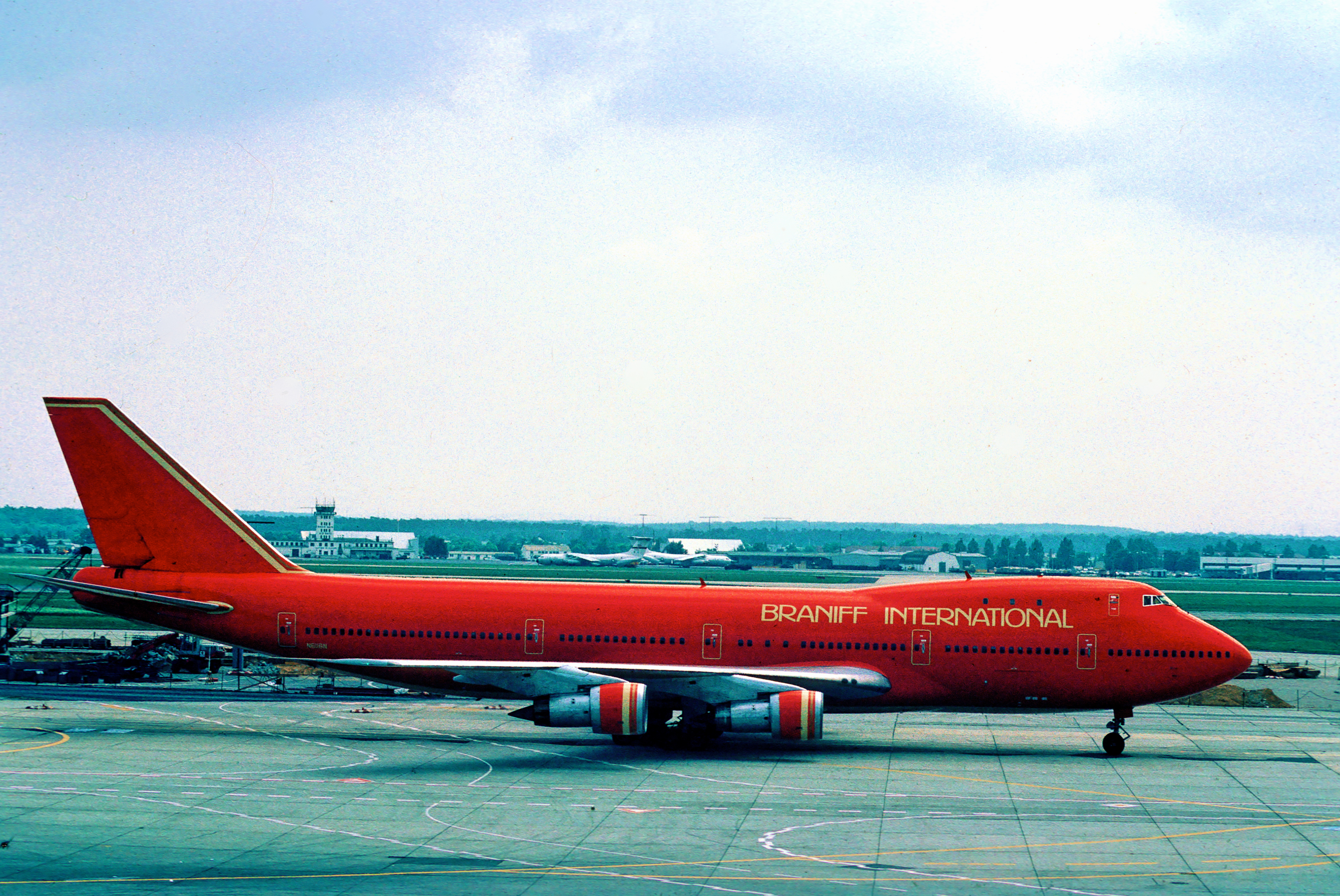 Braniff International Boeing 747-230B; N611BN@FRA, June 1979/ AUC